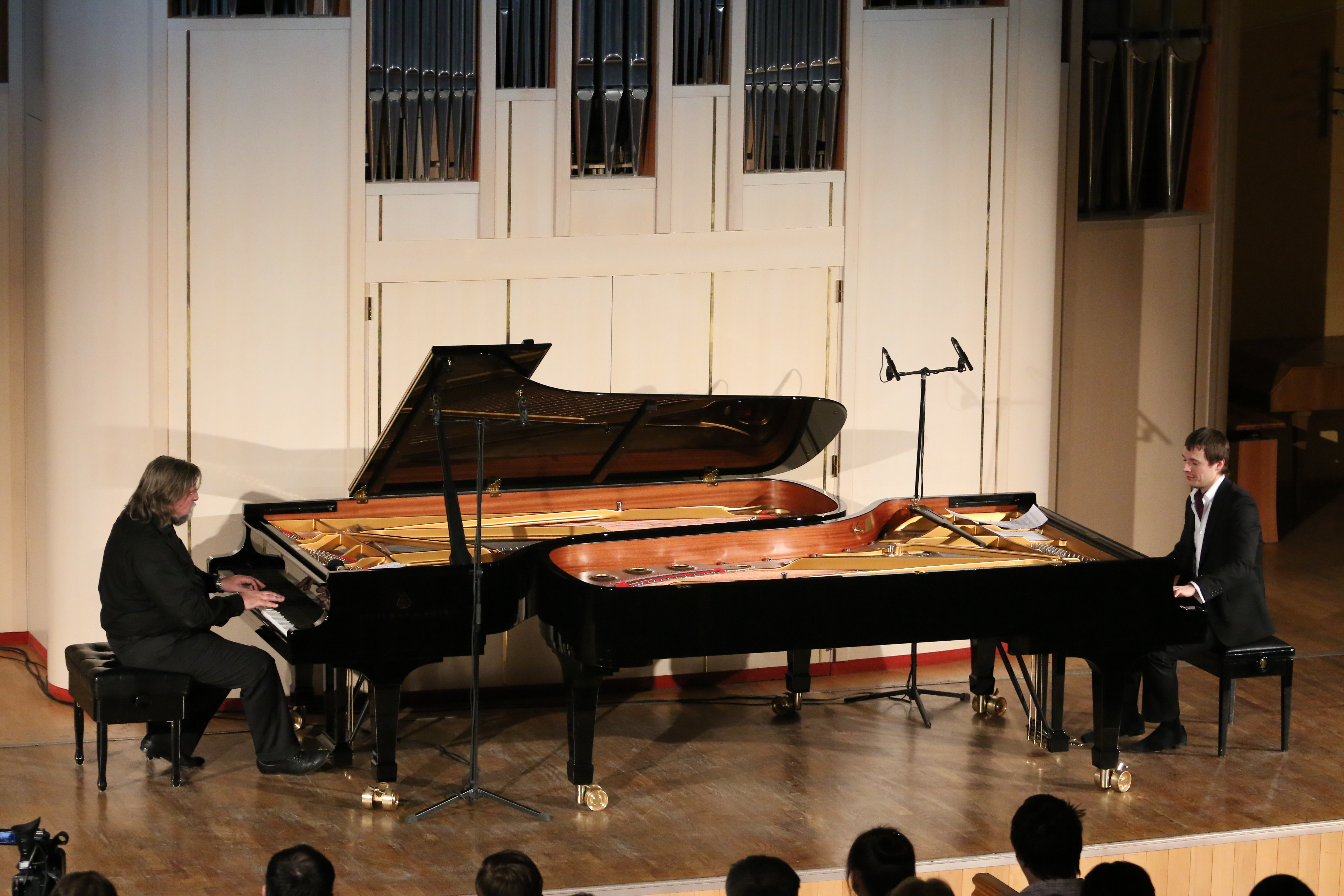 Grohovsky